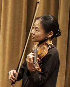 Midori instructing a student during rehearsal in 2013 at the Max M. Fisher Music Center. This is a retouched picture, which means that it has been digitally altered from its original version. Modifications: Cropped using Gimp 2.8 to focus on the subject. Modifications made by Yadap. The original can be found here